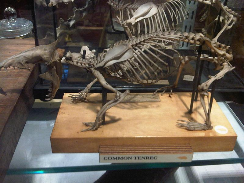 Tailless tenrec or common tenrec (Tenrec ecaudatus) skeleton in Grant Museum of Zoology, London, England.